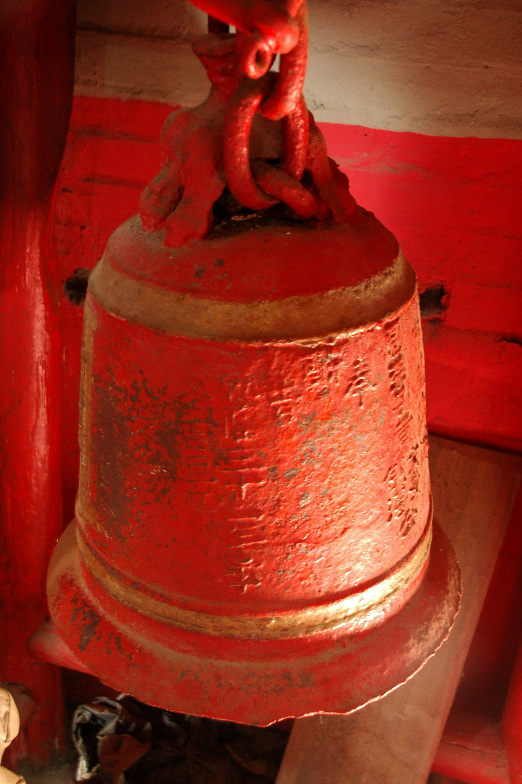 A bell cast in 1767 (the 32nd year of Emperor Qianlong of the Qing Dynasty) inside the Pak She Tin Hau Temple, Cheung Chau, Hong Kong.